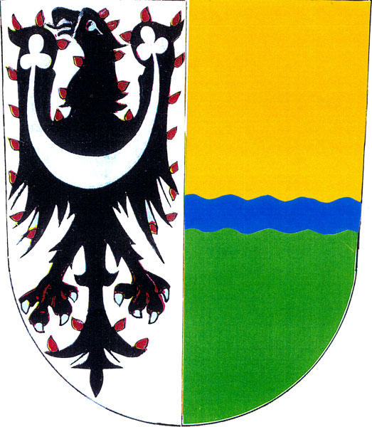 Municipal coat of arms of Straškov-Vodochody village, Litoměřice District, Czech Republic.